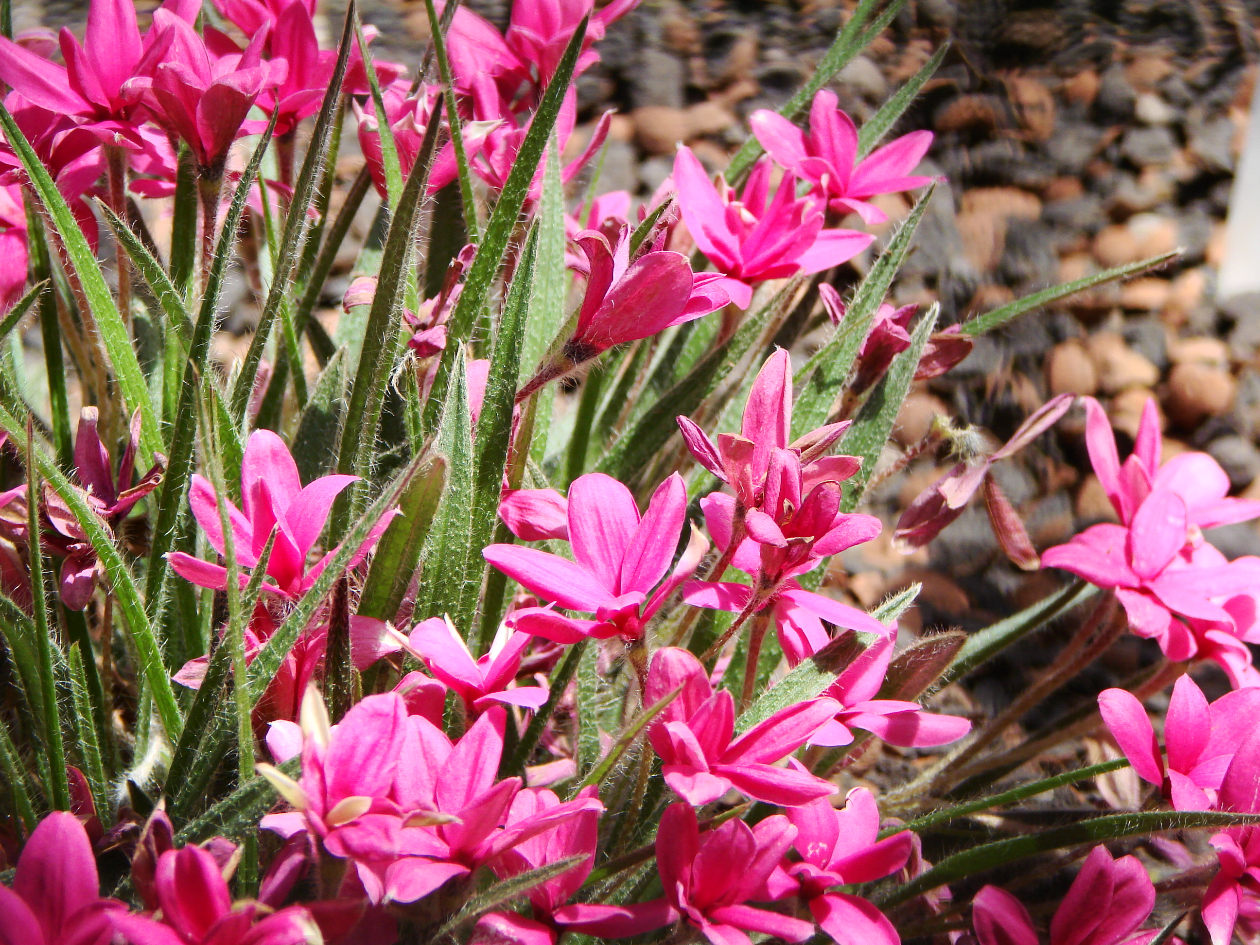 Margaret rose